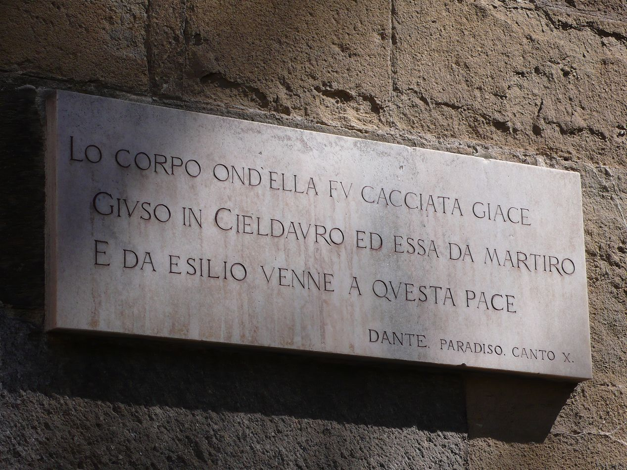 Plaque displaying verses by Dante honouring Boetius on the facade of the church of San Pietro in Pavia, Italy.